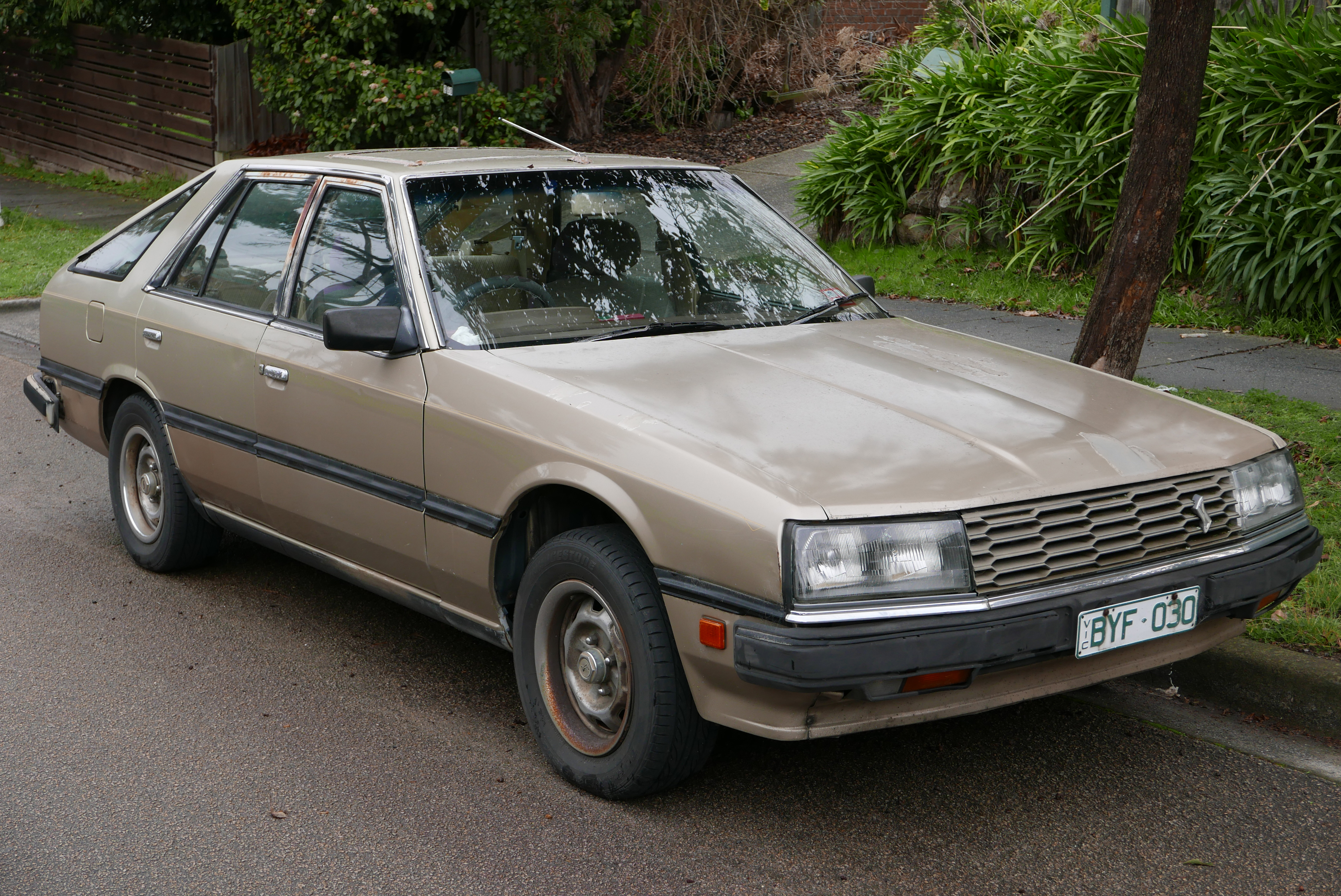 1983 Nissan Skyline (R30) 2.4E hatchback. Photographed in Doncaster East, Victoria, Australia. Vehicle registration enquiry results Jurisdiction Victoria Registration BYF030 Chassis code RMR30003562 Engine code L28589474 Compliance date 1983-08 Year of manufacture 1983